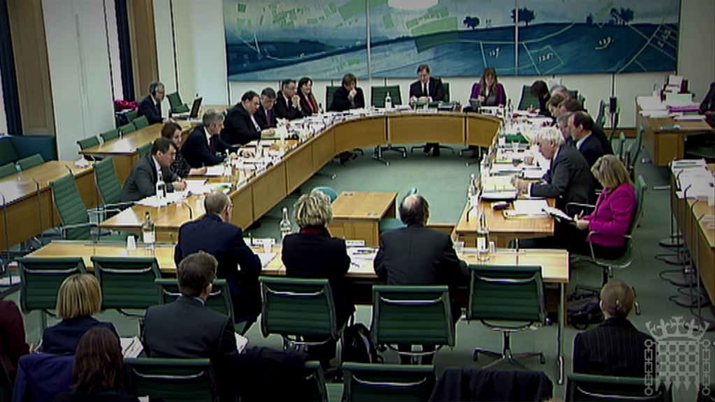 A select Committee of the House of Commons in session at Portcullis House, circa 2010-12